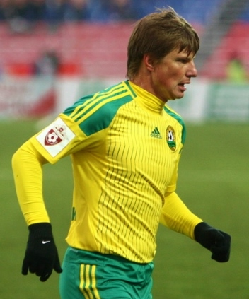 Andrei Arshavin